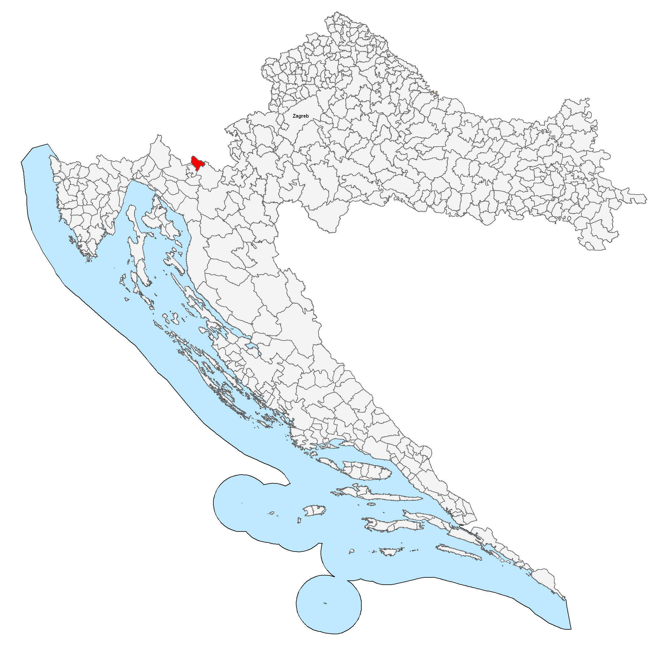 Locator map of Brod Moravice municipality (shown in red) within Croatia (divided in municipalities). Note: The position of Zagreb is shown in the map